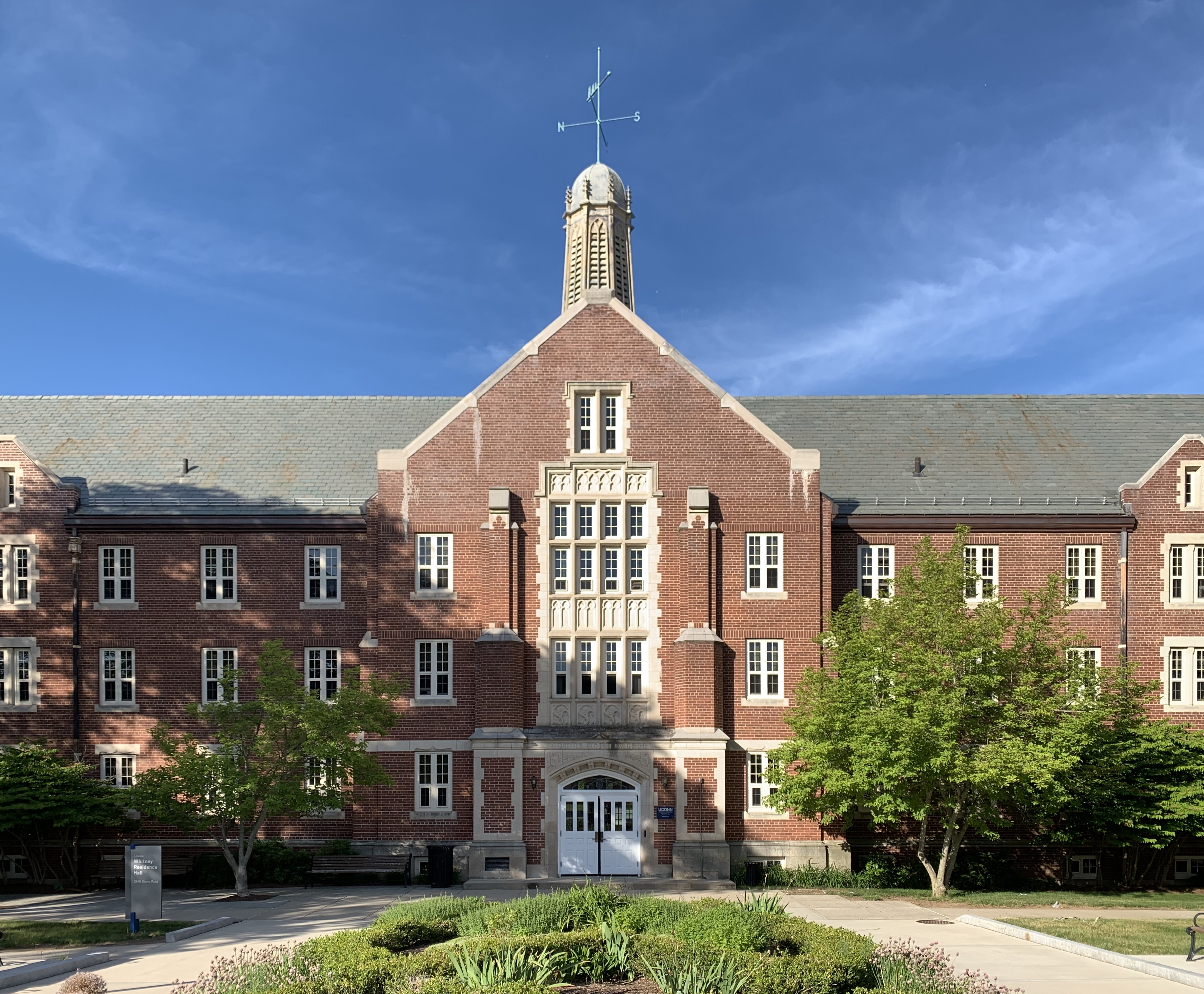 Street view of the Edwina Whitney Residence Hall, University of Connecticut, Storrs